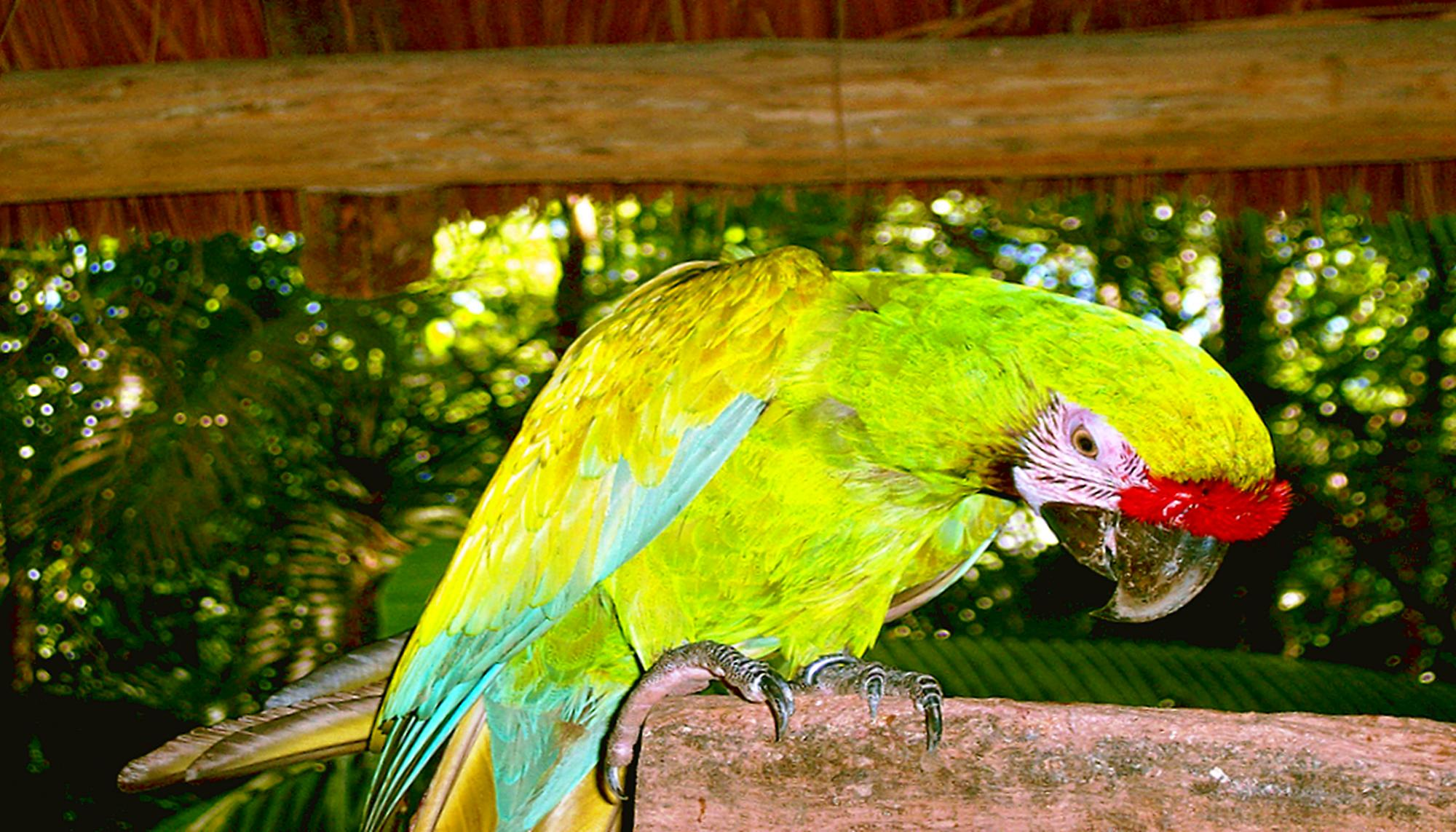 A Macaw. (Ara militaris.)